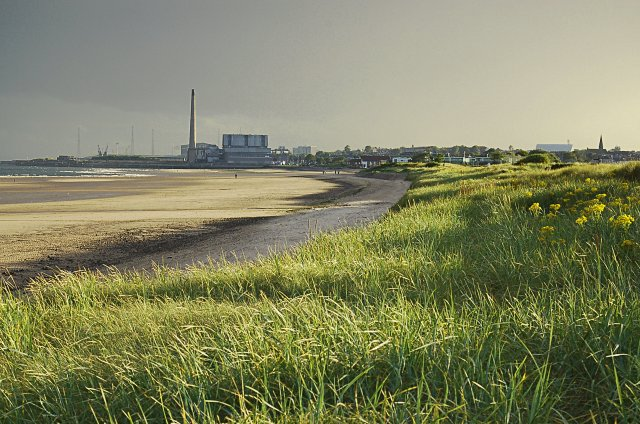 Leven Beach Shore and dune line midway between Largo and Leven in the distance.